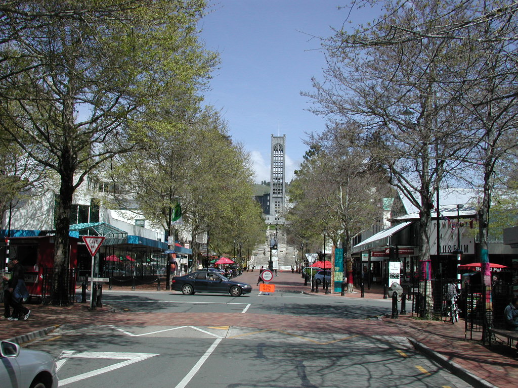 Trafalger Street and Christ Church Cathedral, Nelson